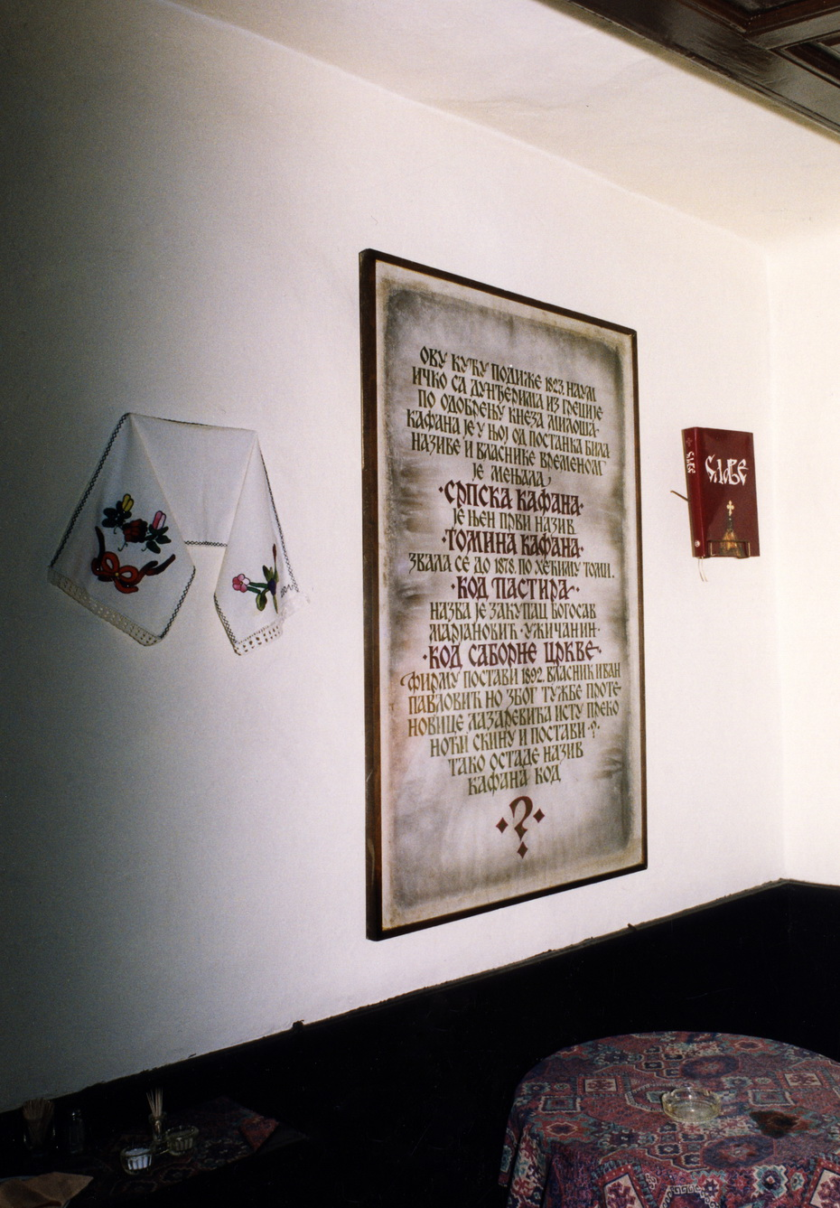 Kafana znak pitanja: Detalj enterijera.